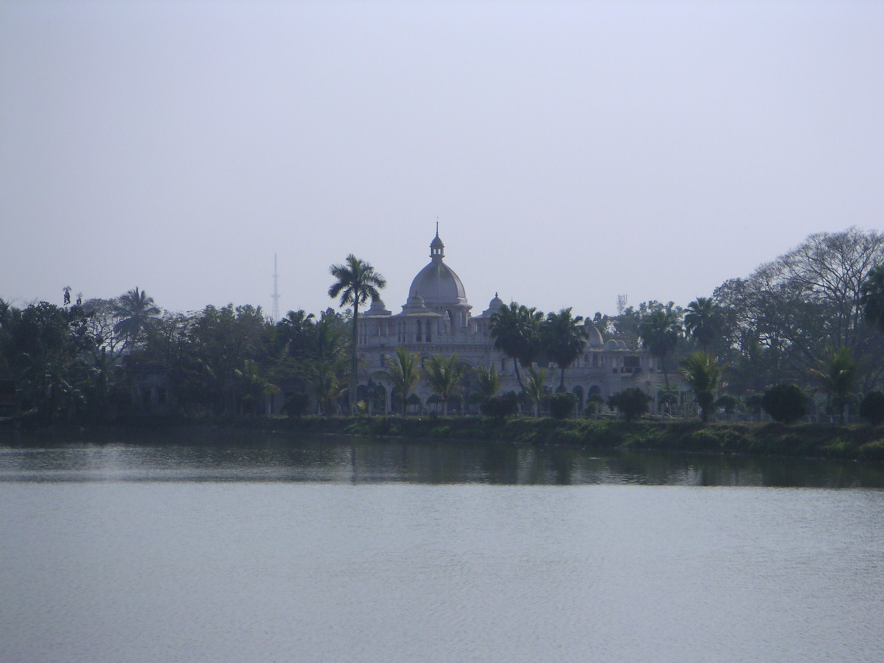 Royal Palace compound in Agartala, Tripura. Photo: Soman